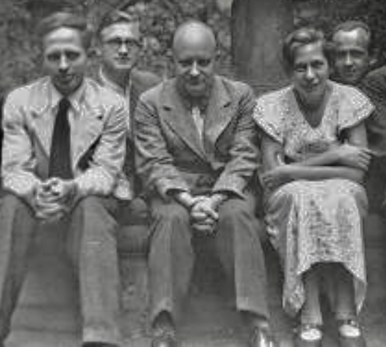 Center: German composer Paul Hindemith (1895–1963) with several students in 1937. On the right: Felicitas Kestner (1914–2001). Hindemith went in exile in 1938. Kestner married in 1940 and became known as composer Felicitas Kukuck.